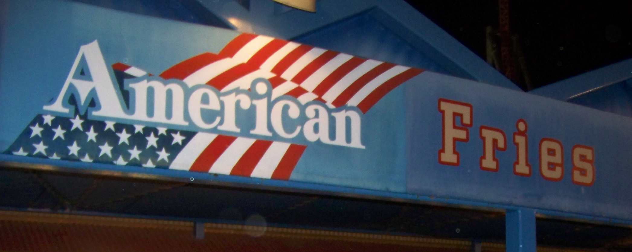 An "American fries" sign at Knott's Berry Farm in Buena Park, California